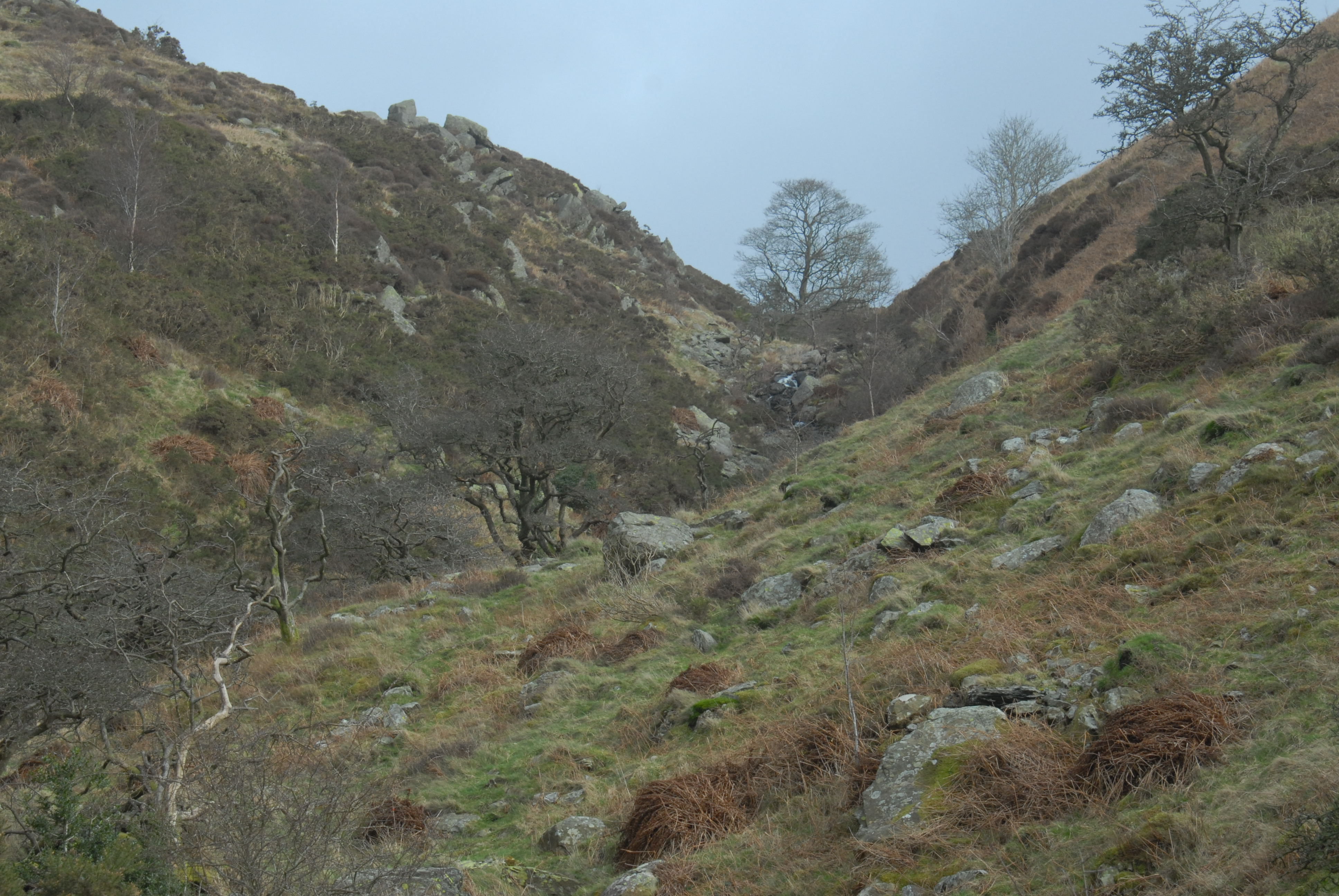 This image shows a view looking up towards the source of the river Eea. null